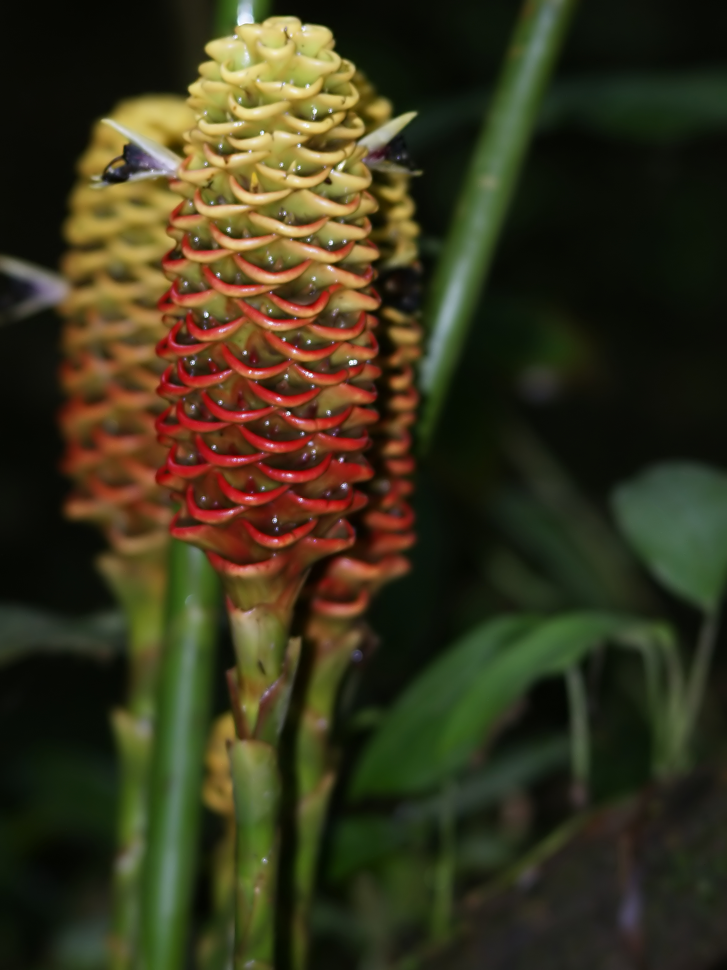 Beehive Ginger near Las Horquetas, Costa Rica